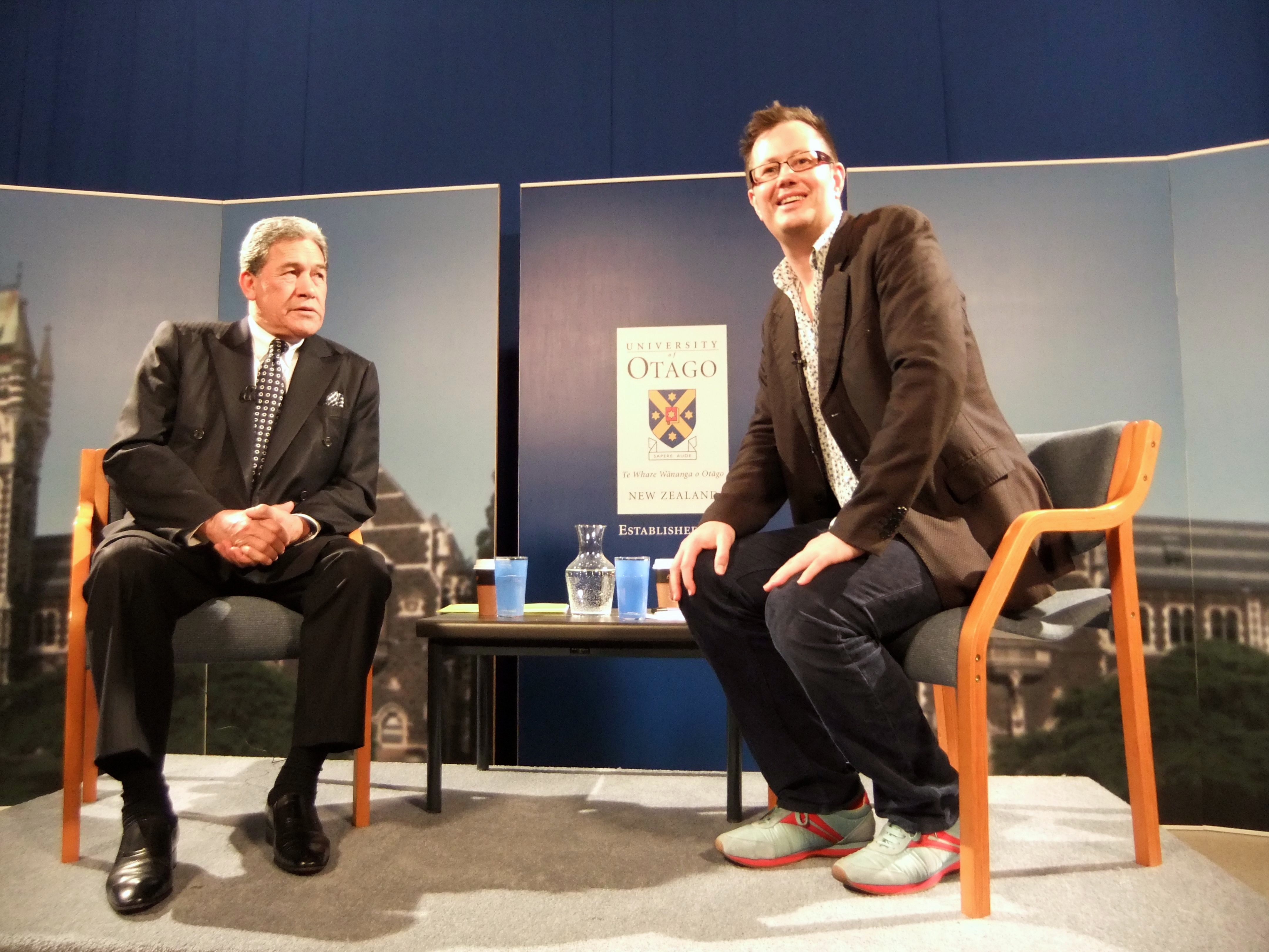 Bryce Edwards talking to NZ First Party's Winston Peters in a University of Otago 'Vote Chat' election year forum in 2011.